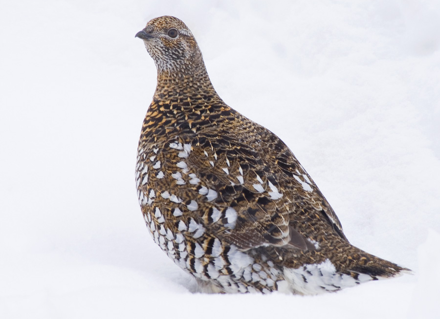 Russia, FarEast, Amut lake